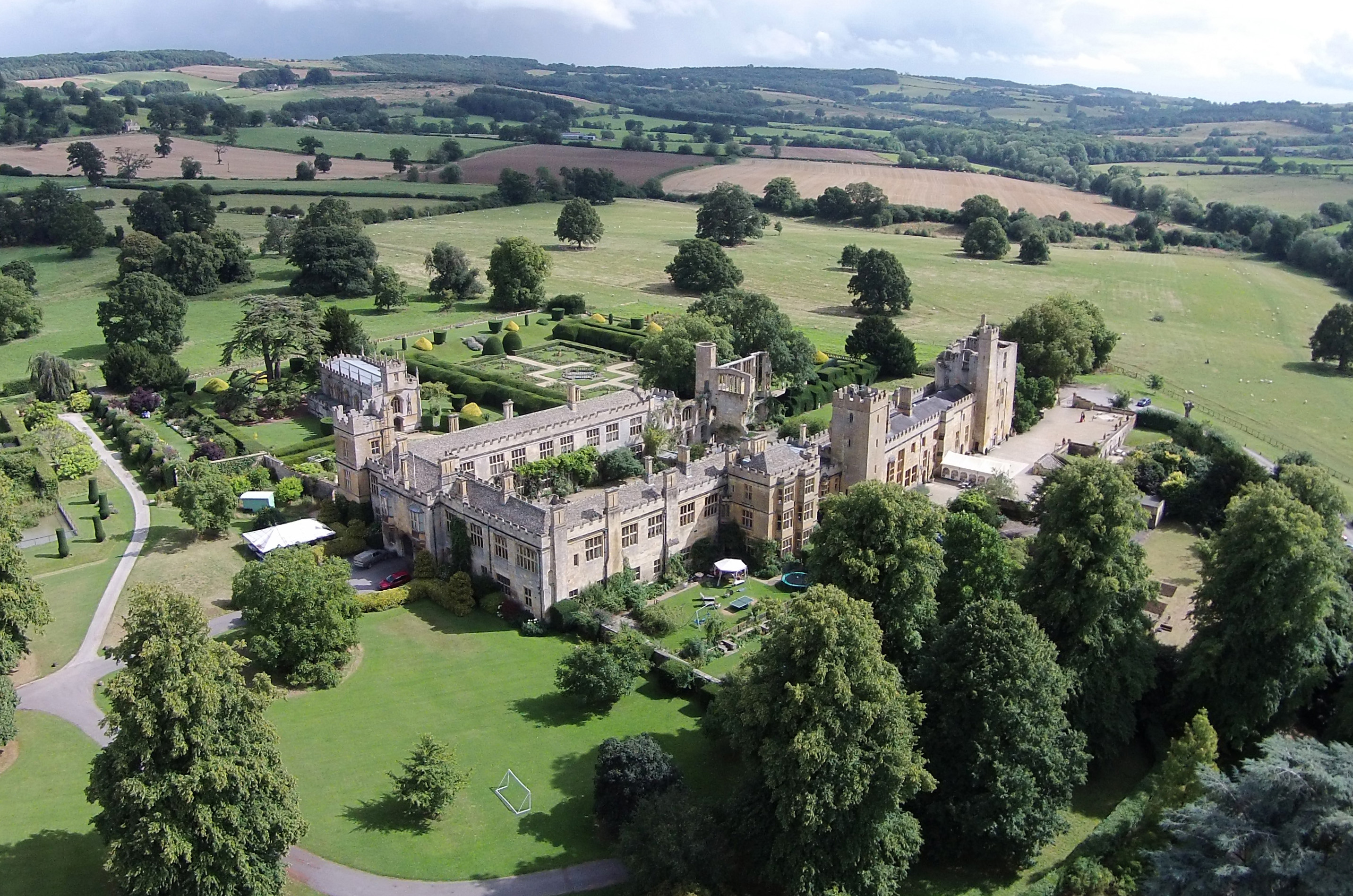 Aerial photo of Sudeley Castle. Camera: DJI Phantom 2 Vision+ UAV (quadcopter drone)